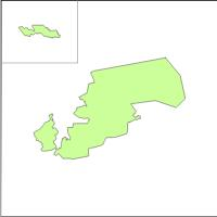 Tumxuk